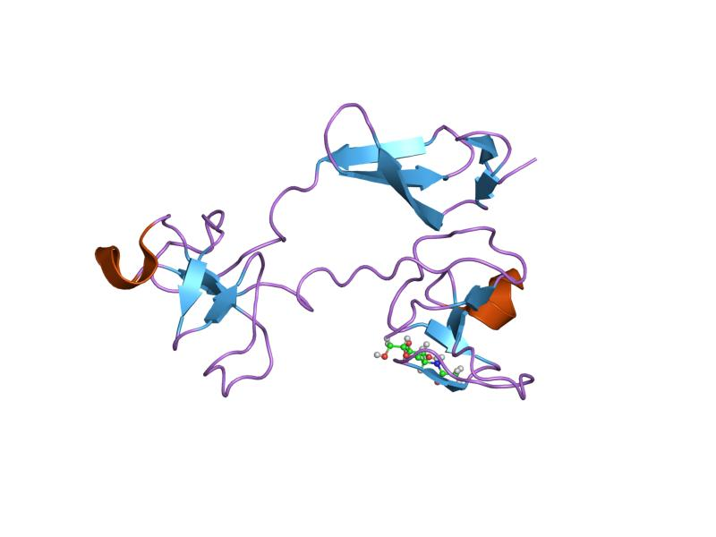 Cartoon representation of the molecular structure of protein registered with 1e8b code.